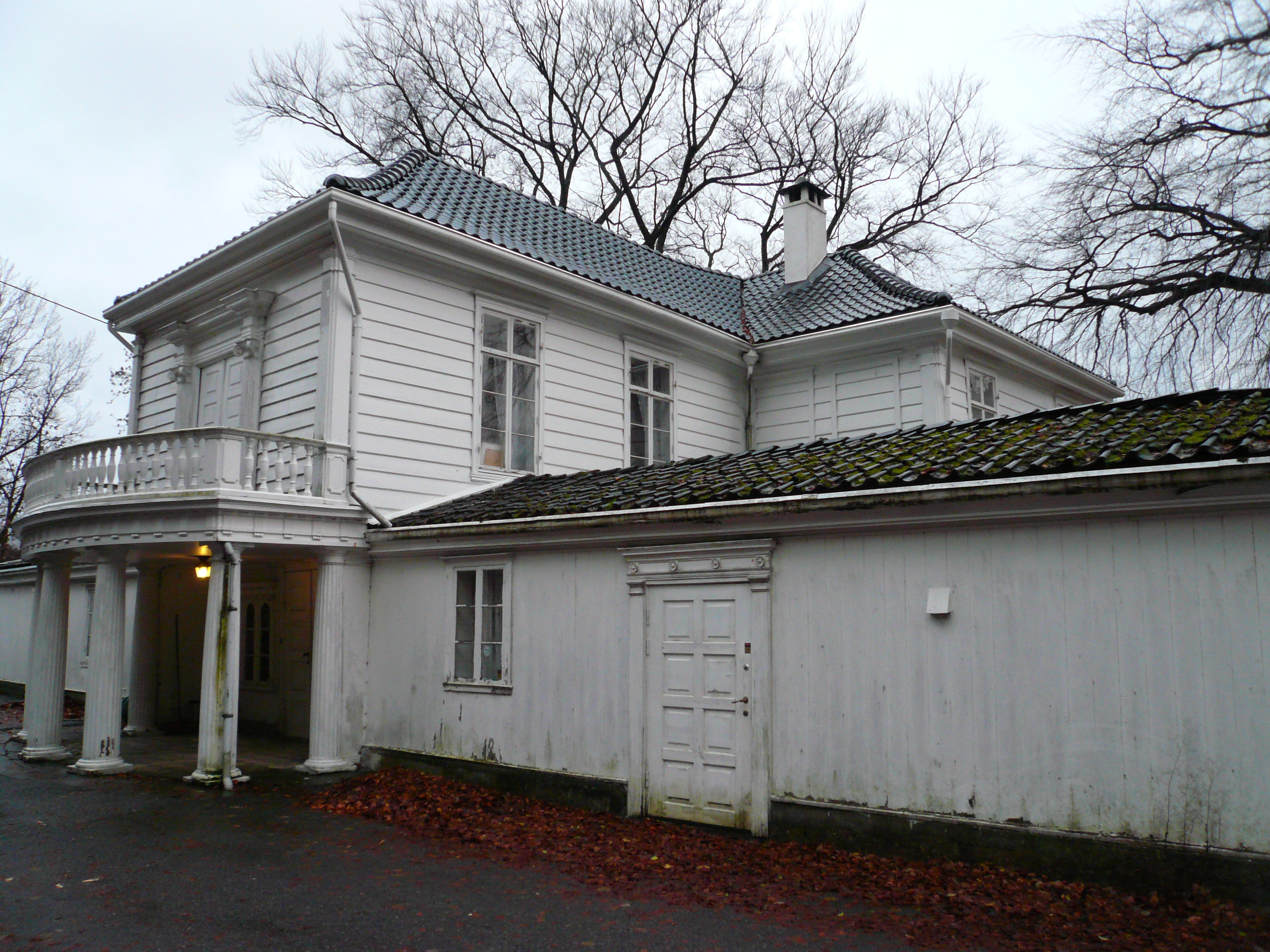 Christinegård entrance. Building from 1836 in Sandviken, Bergen, Norway.